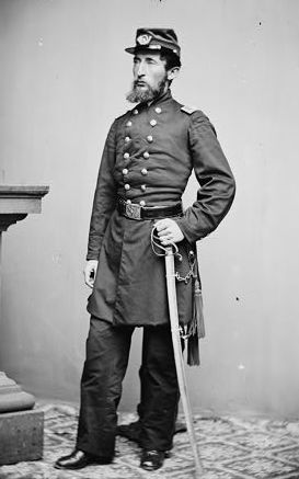 Title: Col. N.B. Hyde, 37th Vermont Inf. Physical description: 1 negative Note: Colonel Breed Noyes Hyde (1831-1918) of the 3rd Vermont Infantry.